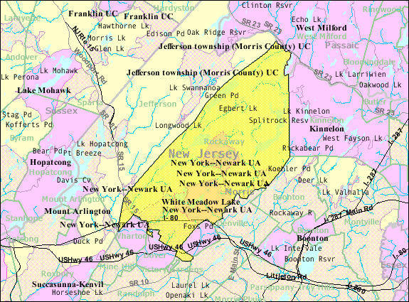 Census Bureau map of Rockaway Township